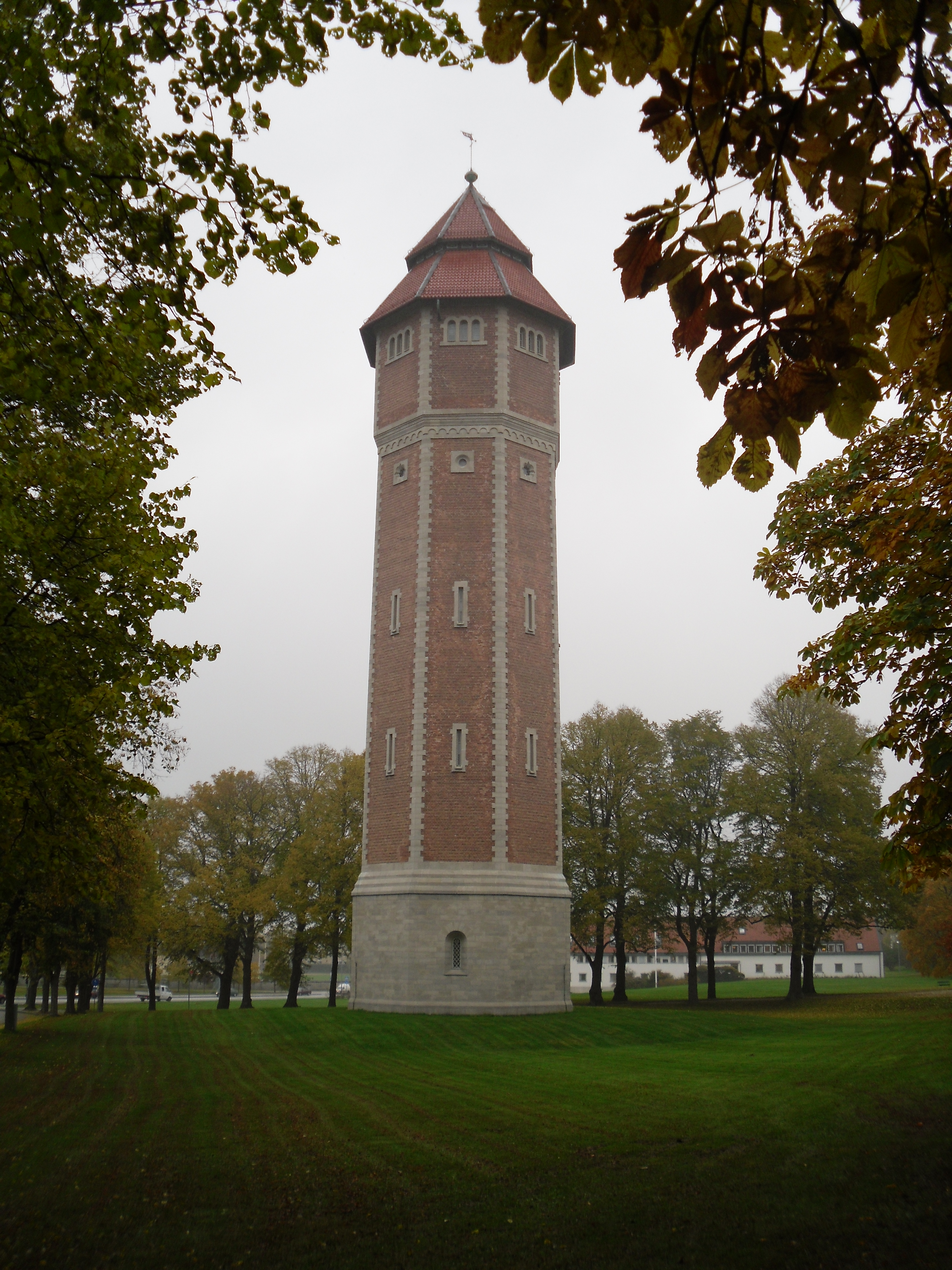 The water tower in Visby, Sweden